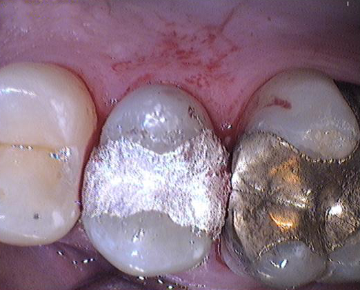 Tooth filled